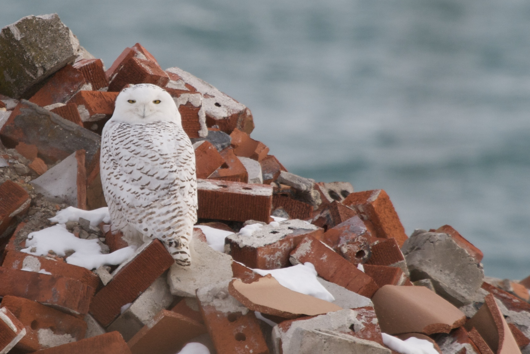 Snowy Owl Bubo scandiacus, Tommy Thompson Park, Toronto. Note: The geotag on this photo reflects the entrance of the park to avoid people flocking to the site and disturbing the bird.